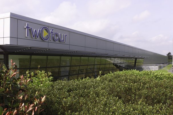 The outside of Twofour's global headquarters